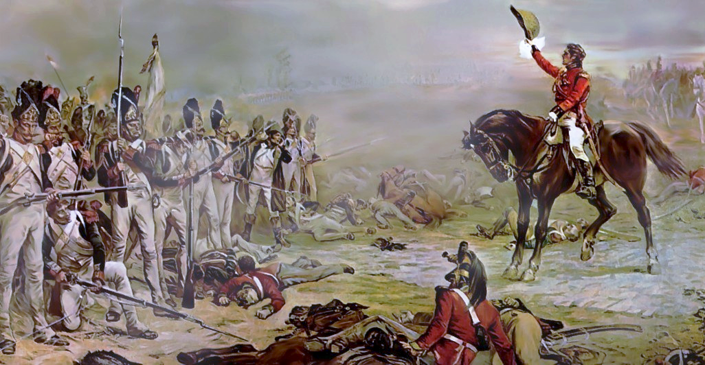 General Hill invites the last remnants of French Imperial Guard to surrender. Remembered moment of the battle.